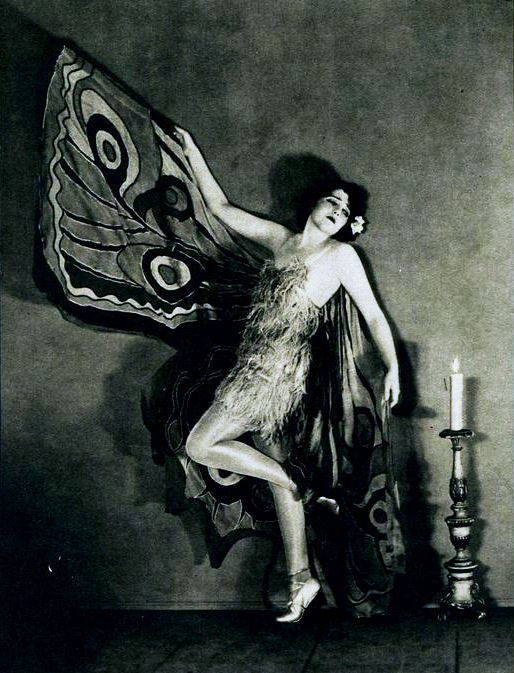 American actress Bebe Daniels dressed as a moth for a dance, from the American drama film Singed Wings (1922), on page 8 of the December 1922 Screenland.